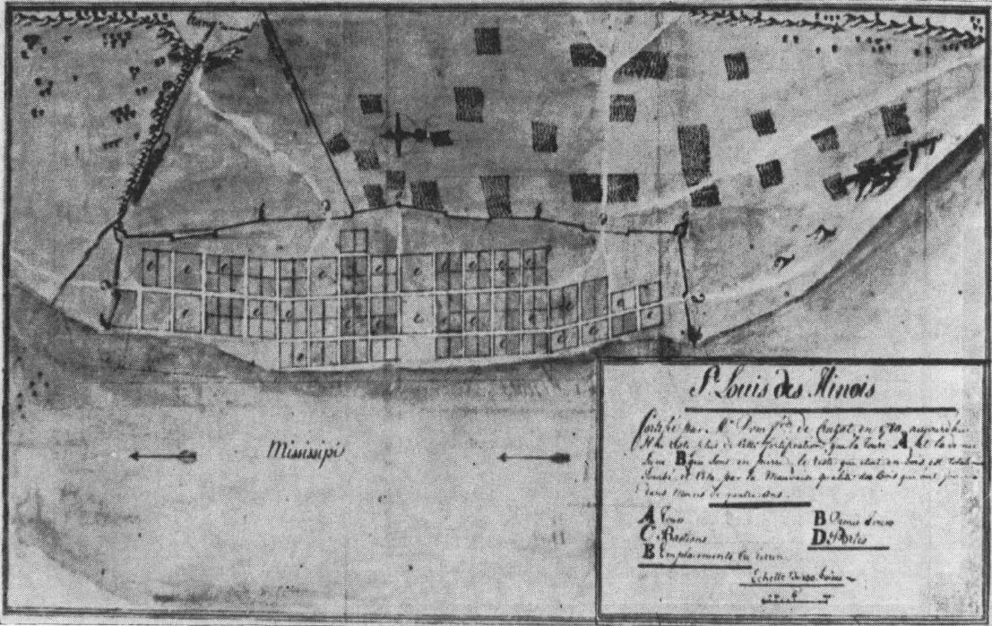 A map of St. Louis, Illinois (now St. Louis, Missouri) in 1780. From the archives in Seville, Spain